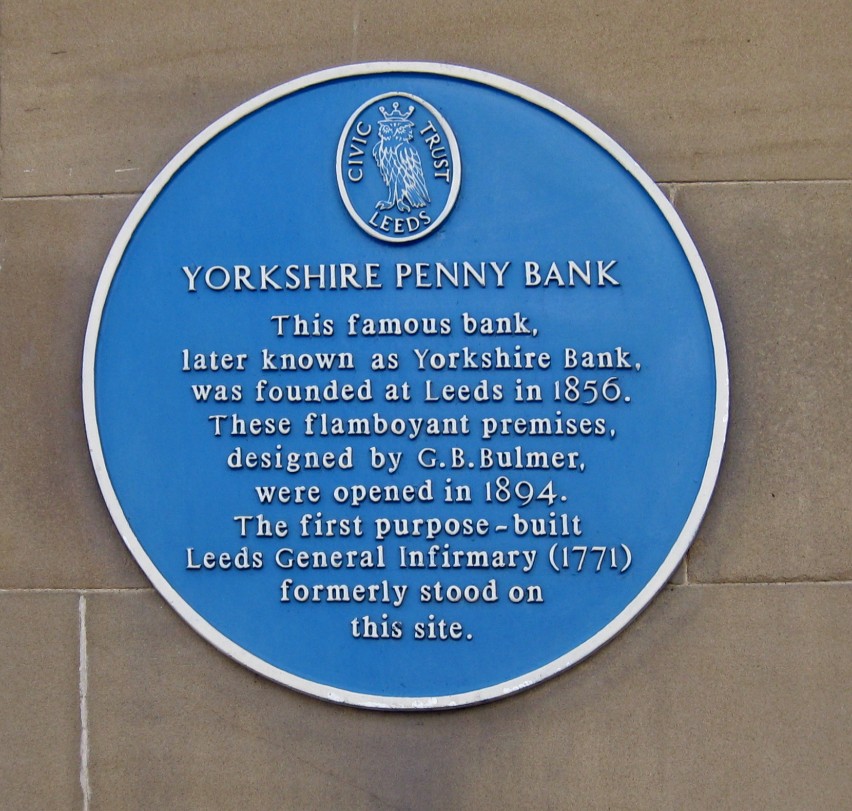 Yorkshire Penny Bank blue plaque, Yorkshire Bank plc, Infirmary Street, Leeds LS1 2JP